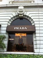 Κατάστημα Prada στο Χονγκ Κονγκ